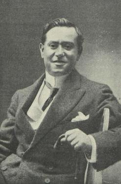 Spanish Actor José Santiago